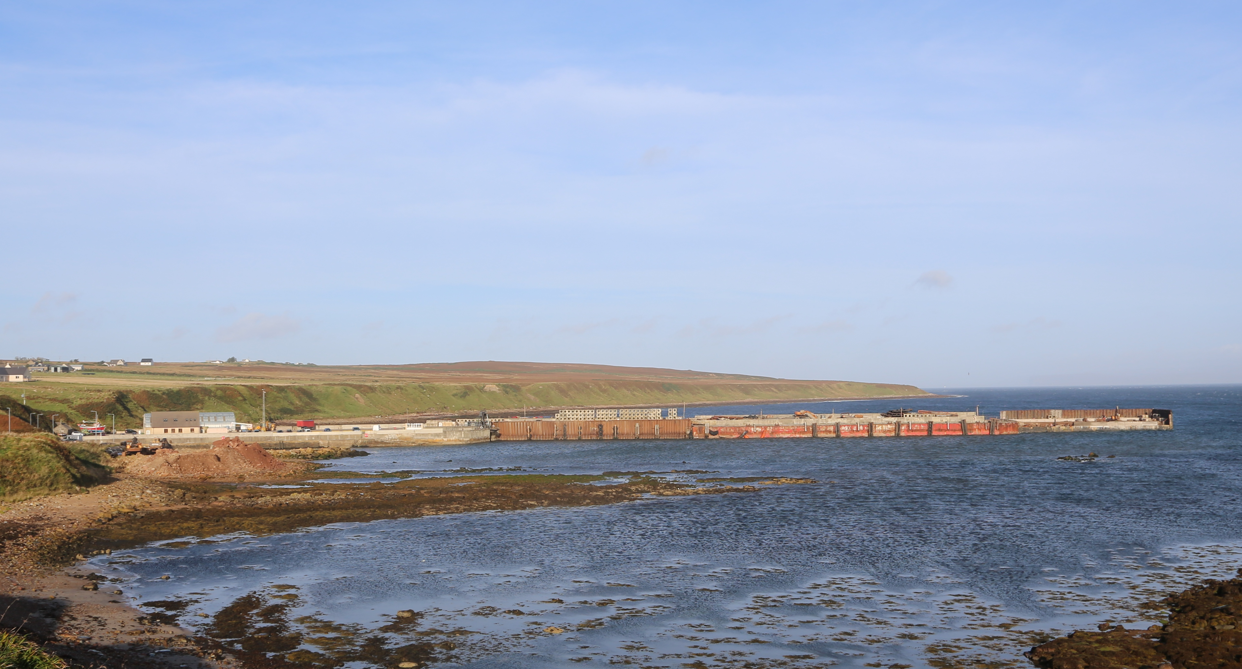 Photo of Gills Bay pier